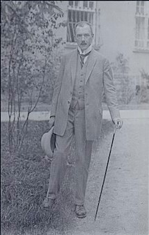 Ausflug nach Bad Mergentheim